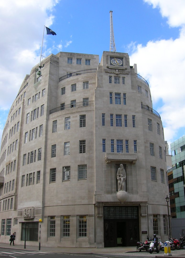 BBC Broadcasting House, Portland Place at the head of Regent Street, London